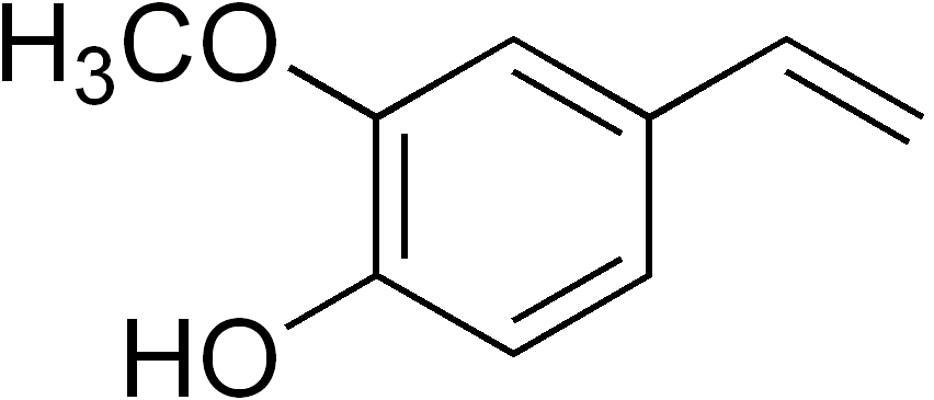 chemical structure of 2-methoxy-4-vinylphenol